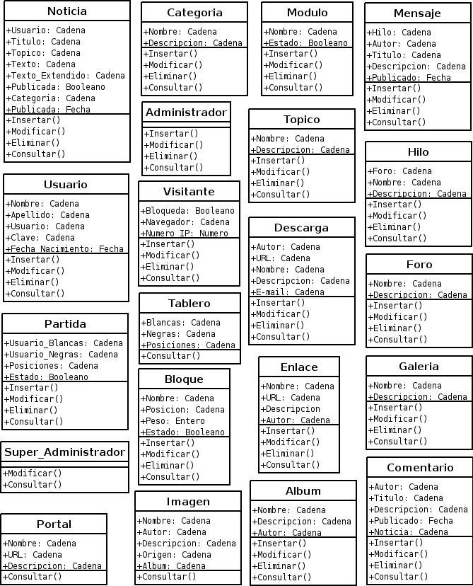 The Photographer